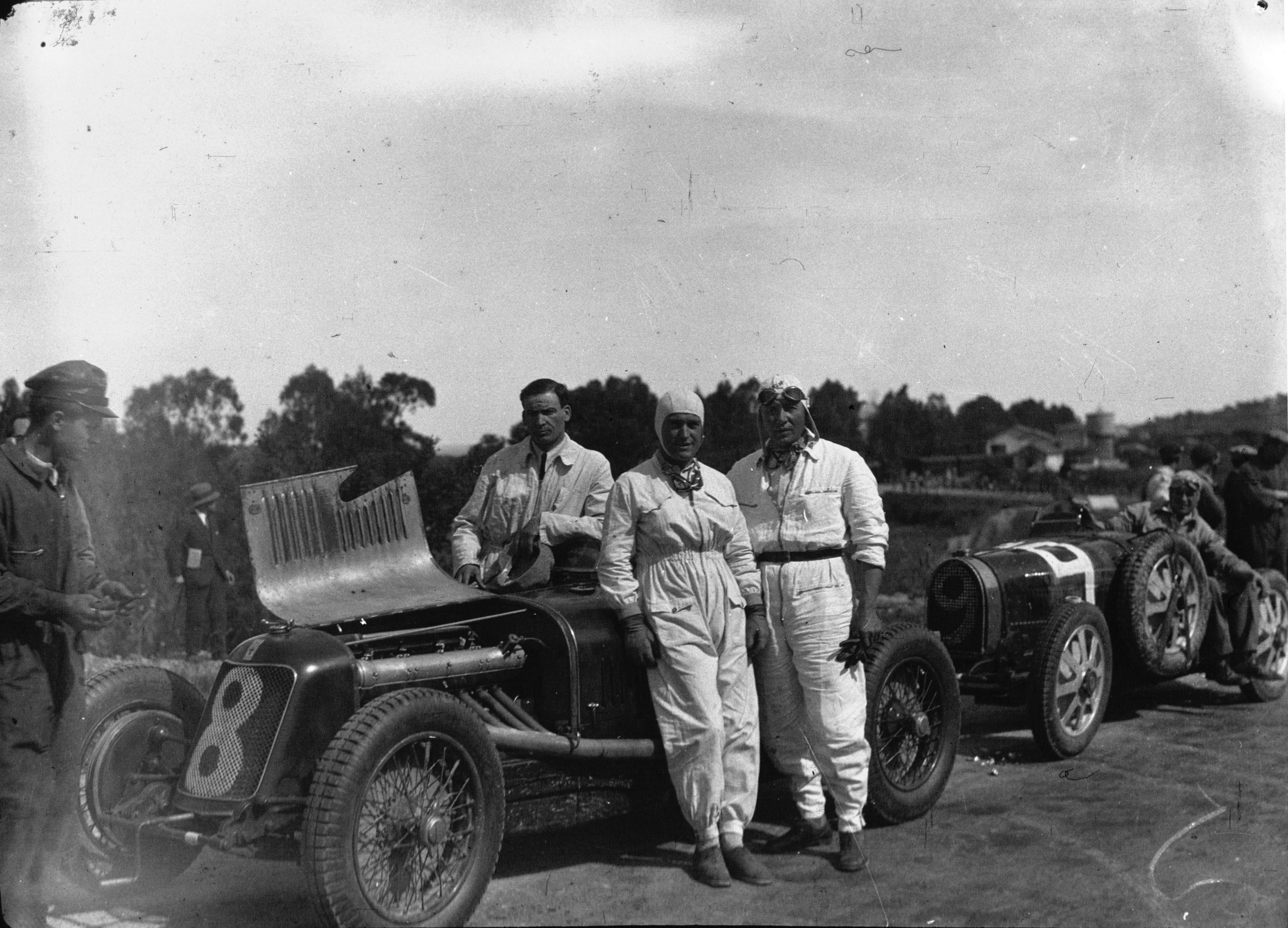 Team leader and mechanic Ernesto Maserati (behind, to the left), drivers Luigi Fagioli (left) and Amadeo Ruggeri (right) at the 1932 Targa Florio. Entry #8 is Amadeo Ruggeri 8C 2800, whereas entry #7 is Fagioli (also 8C 2800, not shown here). The other car (#9) is a Bugatti T35B driven by Archimede Rosa.